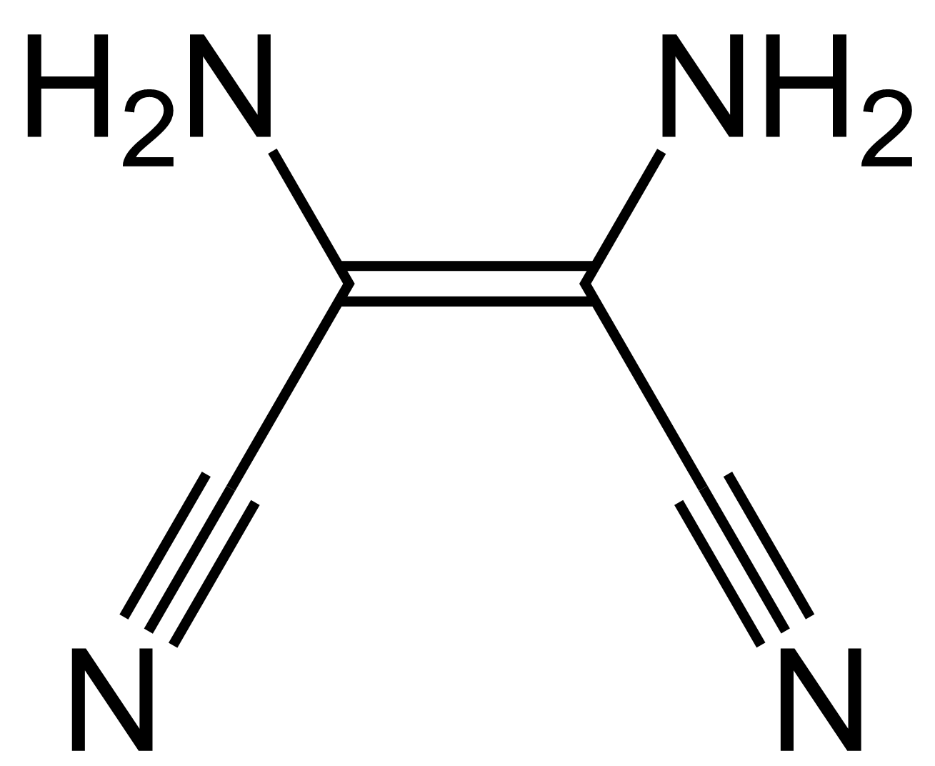 Structure of diaminomaleonitrile or DAMN